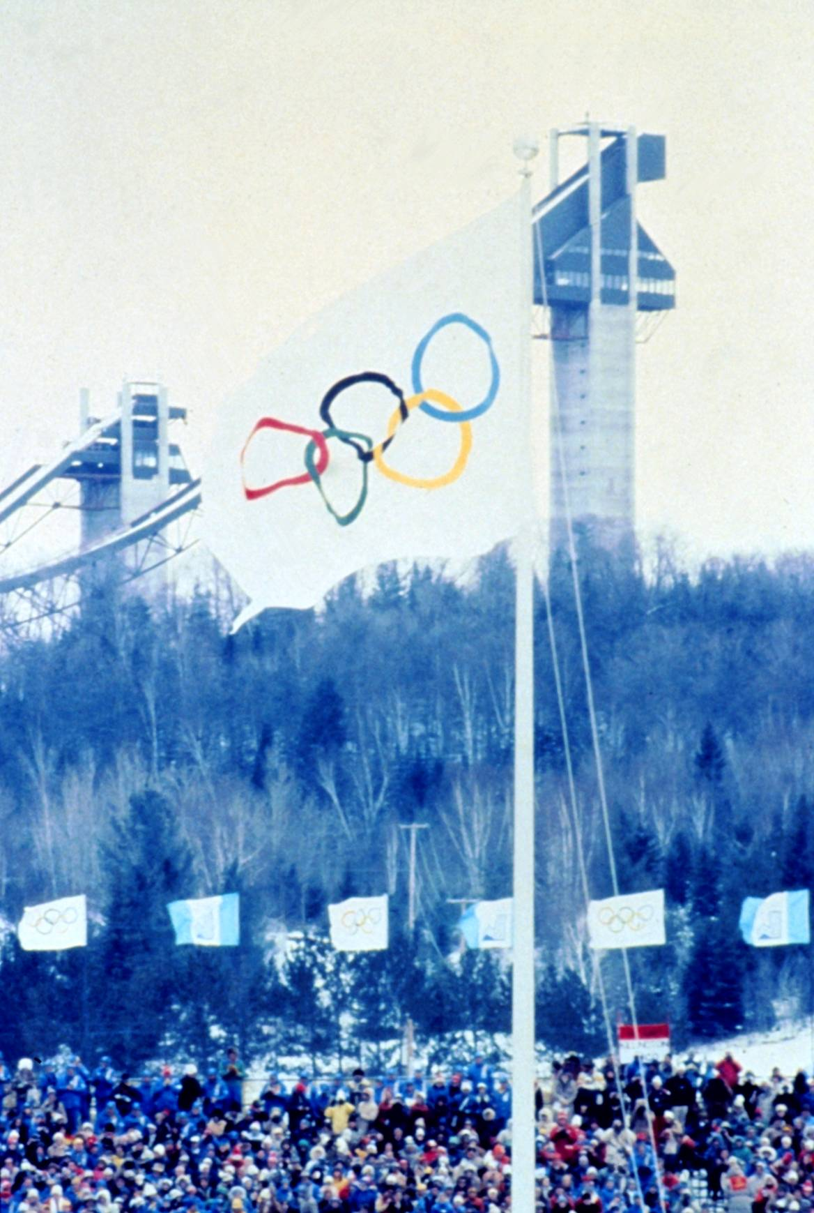 The MacKenzie Intervale Ski Jumping Complex during the 1980 Winter Olympics at the 1980 Winter Olympics.